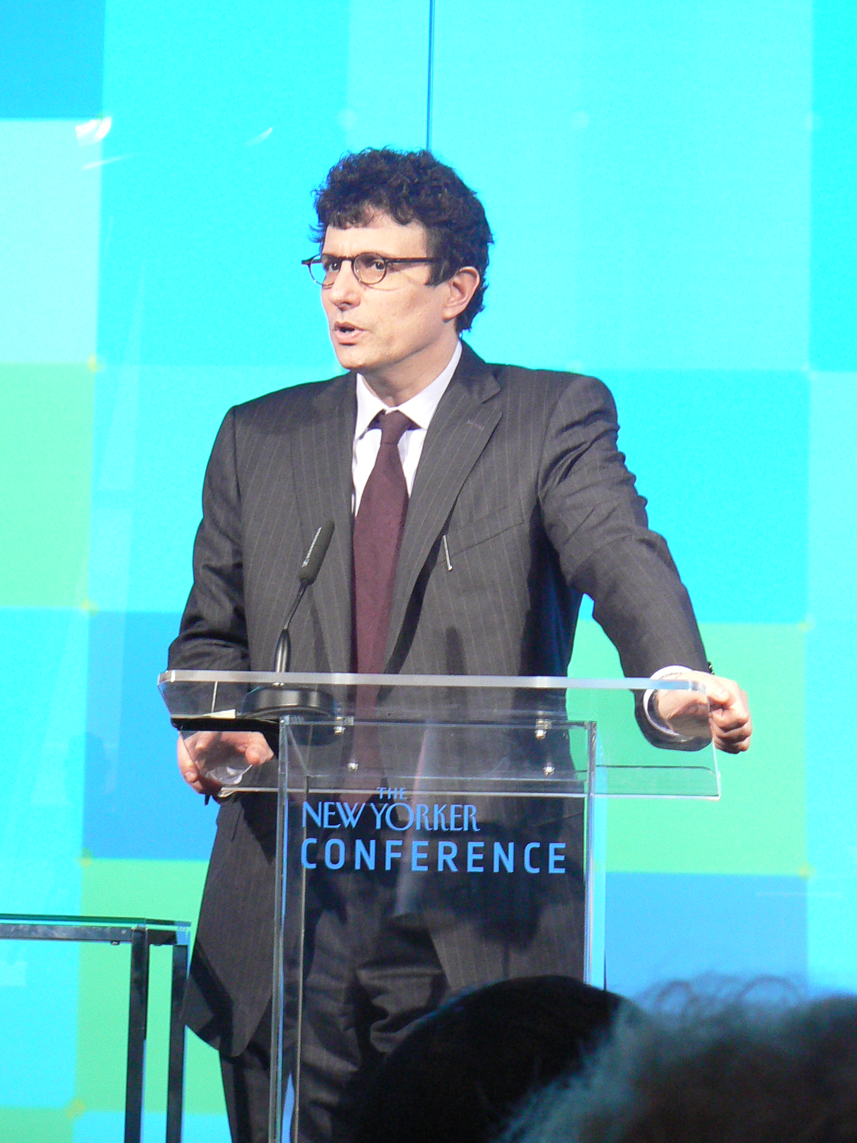 Picture of David Remnick taken by Martin Schneider at the New Yorker Conference on May 9, 2008.